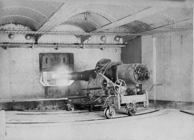 AWM caption : "SYDNEY, NSW. 1892. A BREECH LOADING (BL) 6 INCH MARK 5 GUN IN THE UPPER CASEMATE BATTERY AT GEORGES HEAD." See also : File:RML 10 inch 18 ton gun Georges Head 1891 AWM P00991.021.jpg : An RML 10 inch 18 ton gun in probably the same chamber in 1891 Image:Chowderbay forts Gunroom today.JPG : Probably the same chamber in 2008